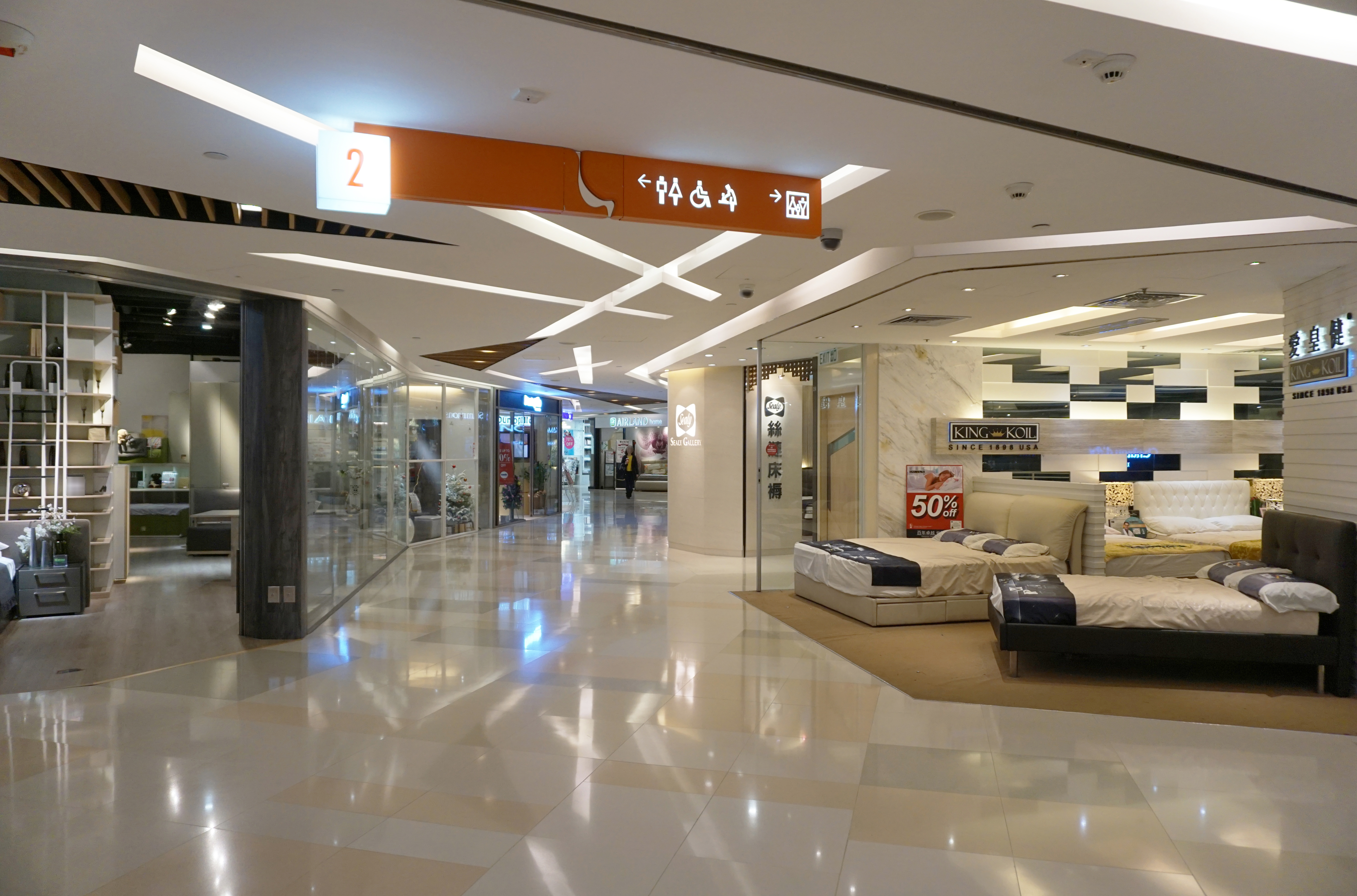 HomeSquare in Shatin, Hong Kong.